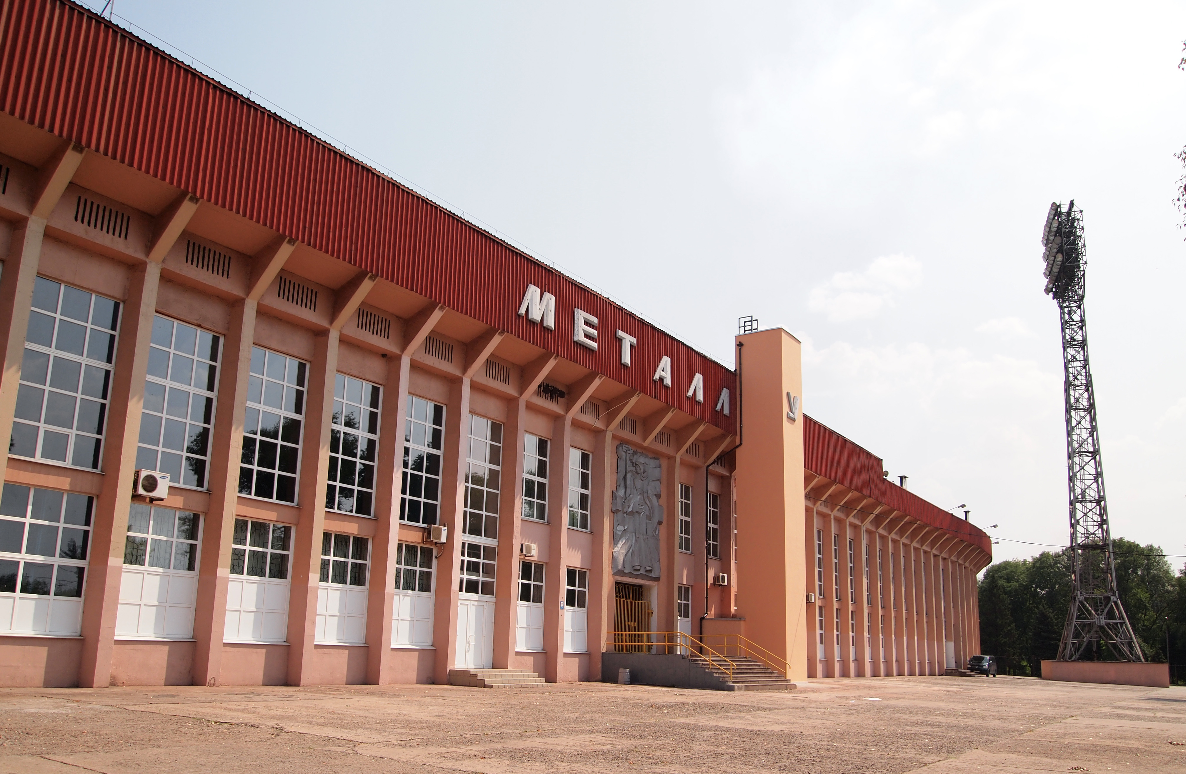 Metalurh Stadium in Kryvyi Rih. This photograph was taken with an Olympus E-PL1